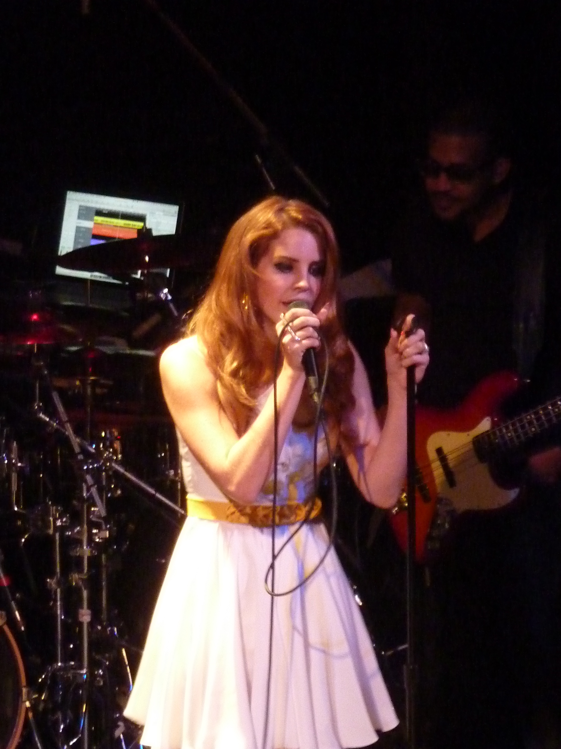 Lana Del Rey, 2011